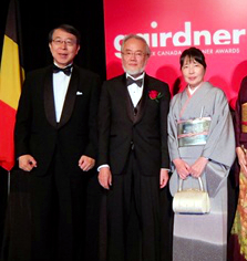 Yoshinori Ōsumi, Honorary Professor of Tokyo Institute of Technology, and Mariko Ōsumi, former Professor of the Faculty of Science and Engineering, Teikyo University of Science, met Kenjirō Monji, Ambassador to Canada, at Gairdner Foundation International Award Ceremony at the Royal Ontario Museum in Toronto City, Ontario Province on October 29, 2015.